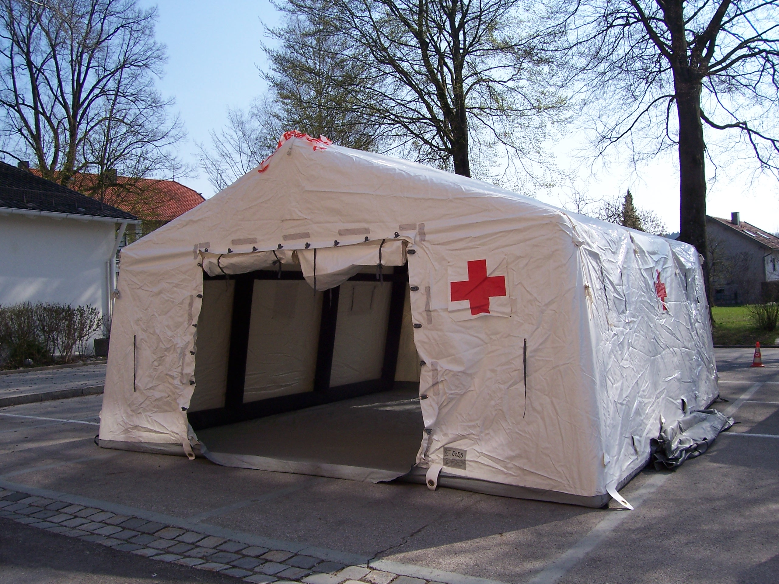 Outside view of an inflatable medical tent (~30 squaremeters), featuring equipment of 2nd medical rapid disaster response group, Bavarian Red Cross of county of Ebersberg.